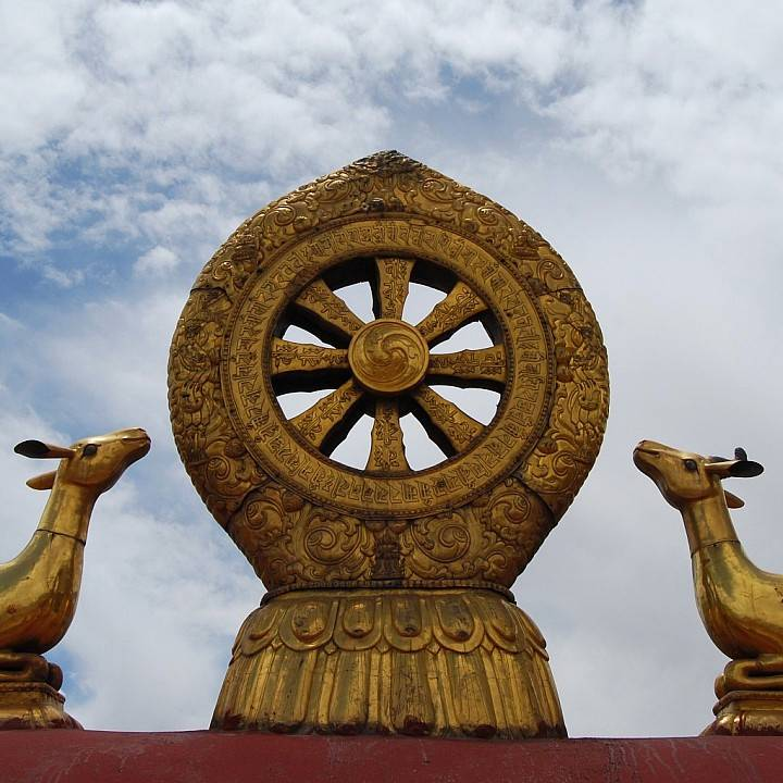 Dharmachakra on Jokhang temple Lhasa / Tibet